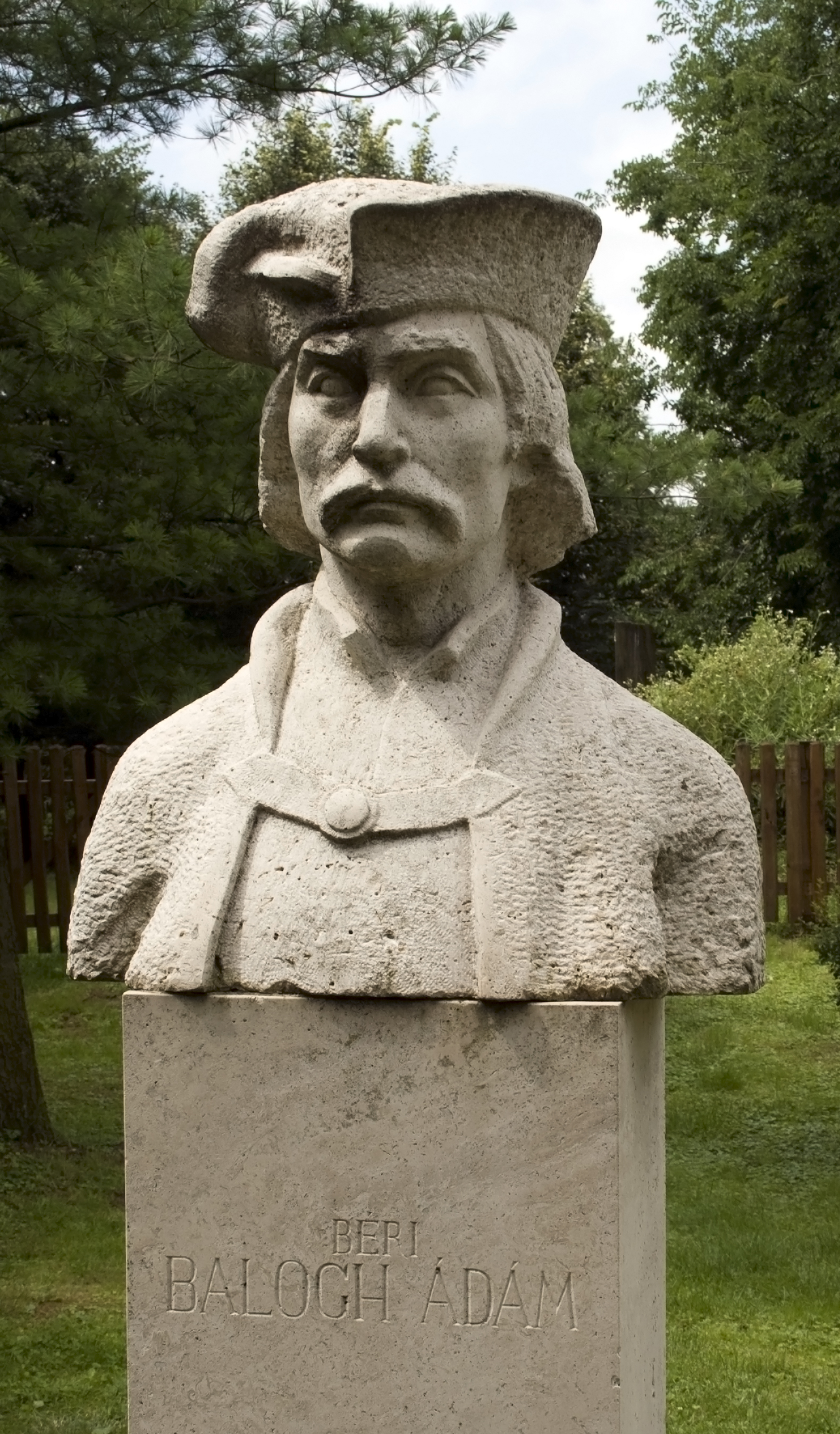 Bust of Ádám Béri Balogh in the park of the Vaja Castle, Hungary – Géza Nagy, 1981